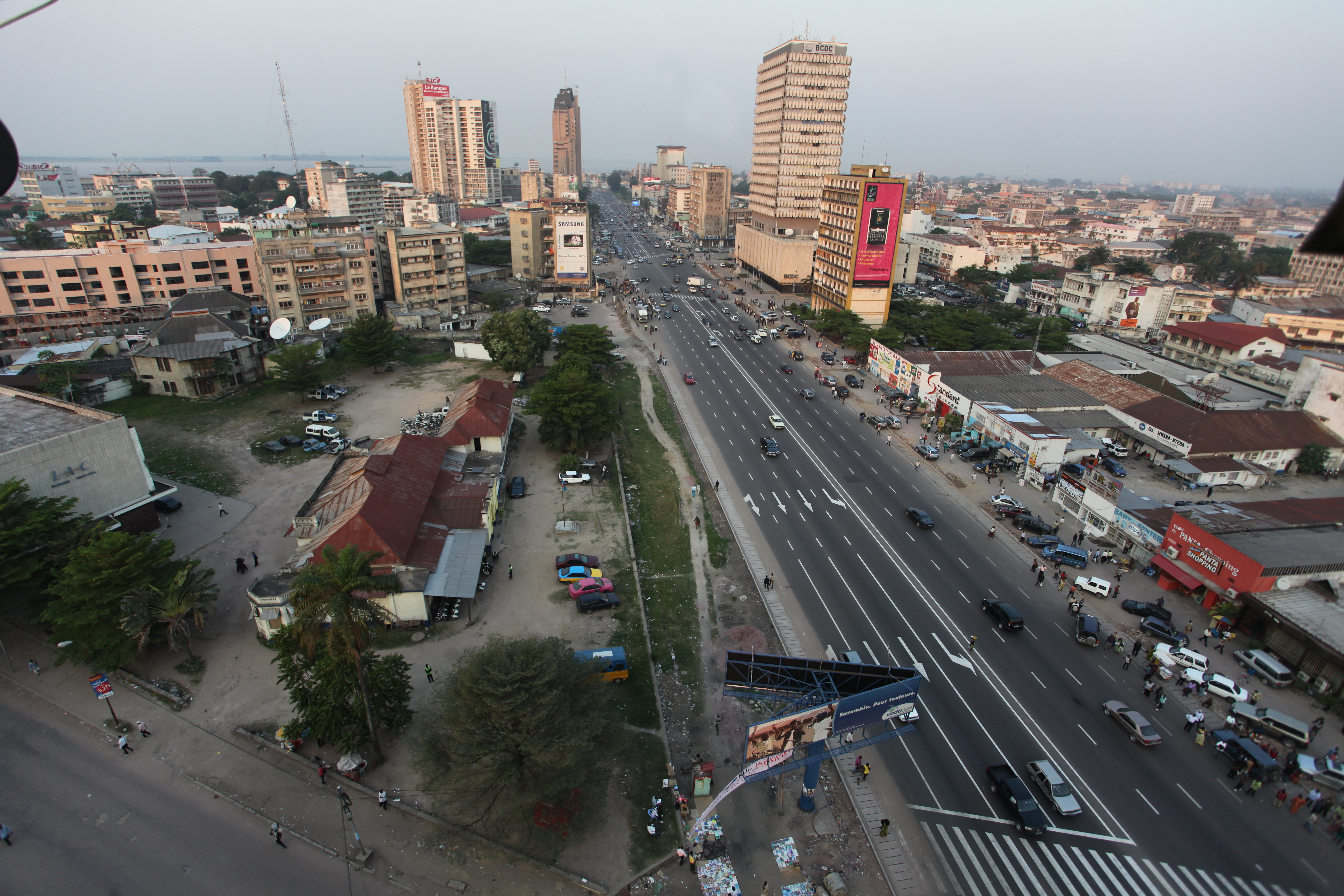 A view of downtown Kinshasa, the capital of the Democratic Republic of Congo. The photo shows the Boulevard of 30 June (or in French Boulevard du 30 juin), the main avenue in this city with a population of over 9 million. The 5-km boulevard connects the business district of La Gombe in the south, to the western part of the city.